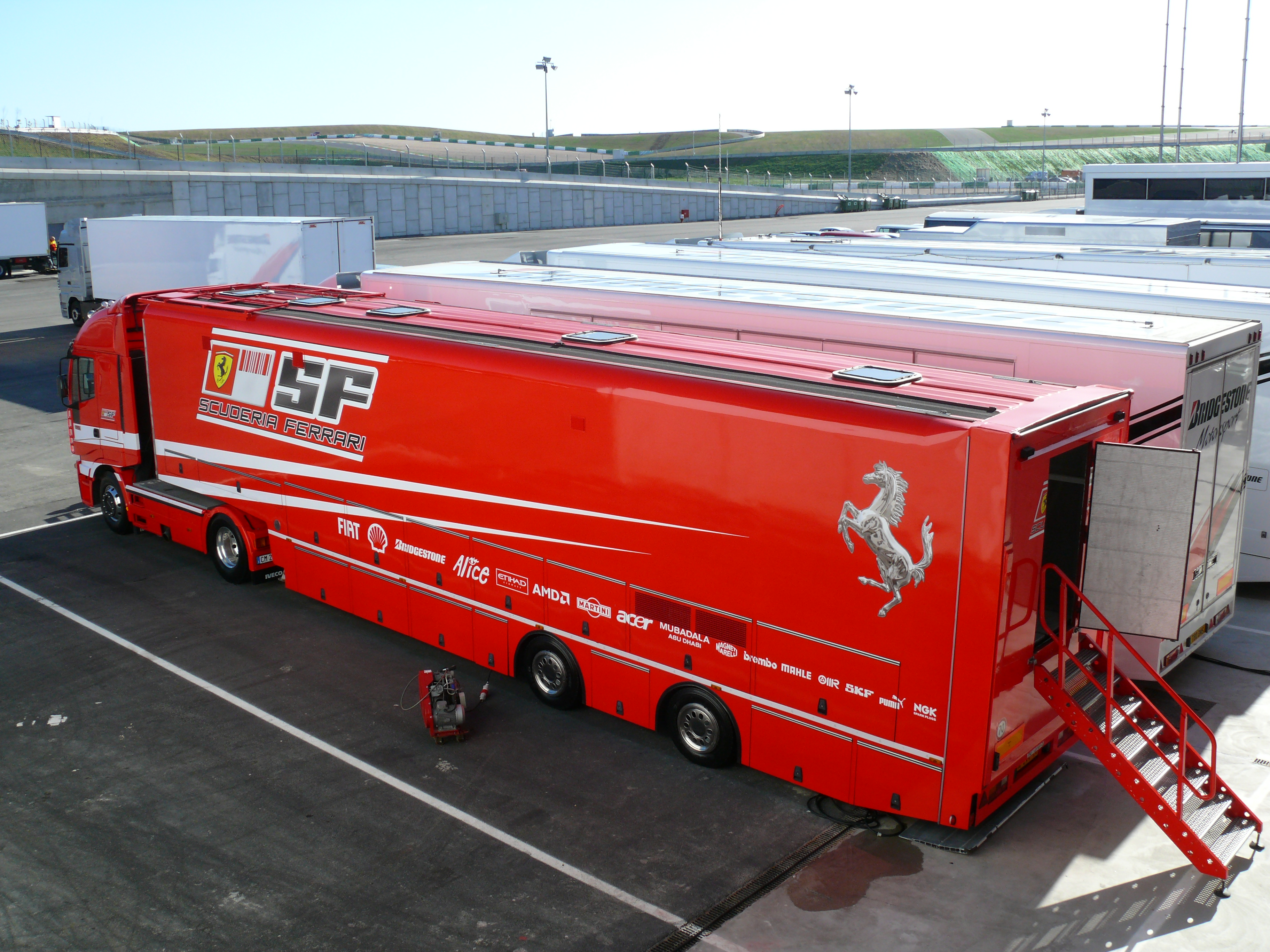 The Scuderia Ferrari's transporter